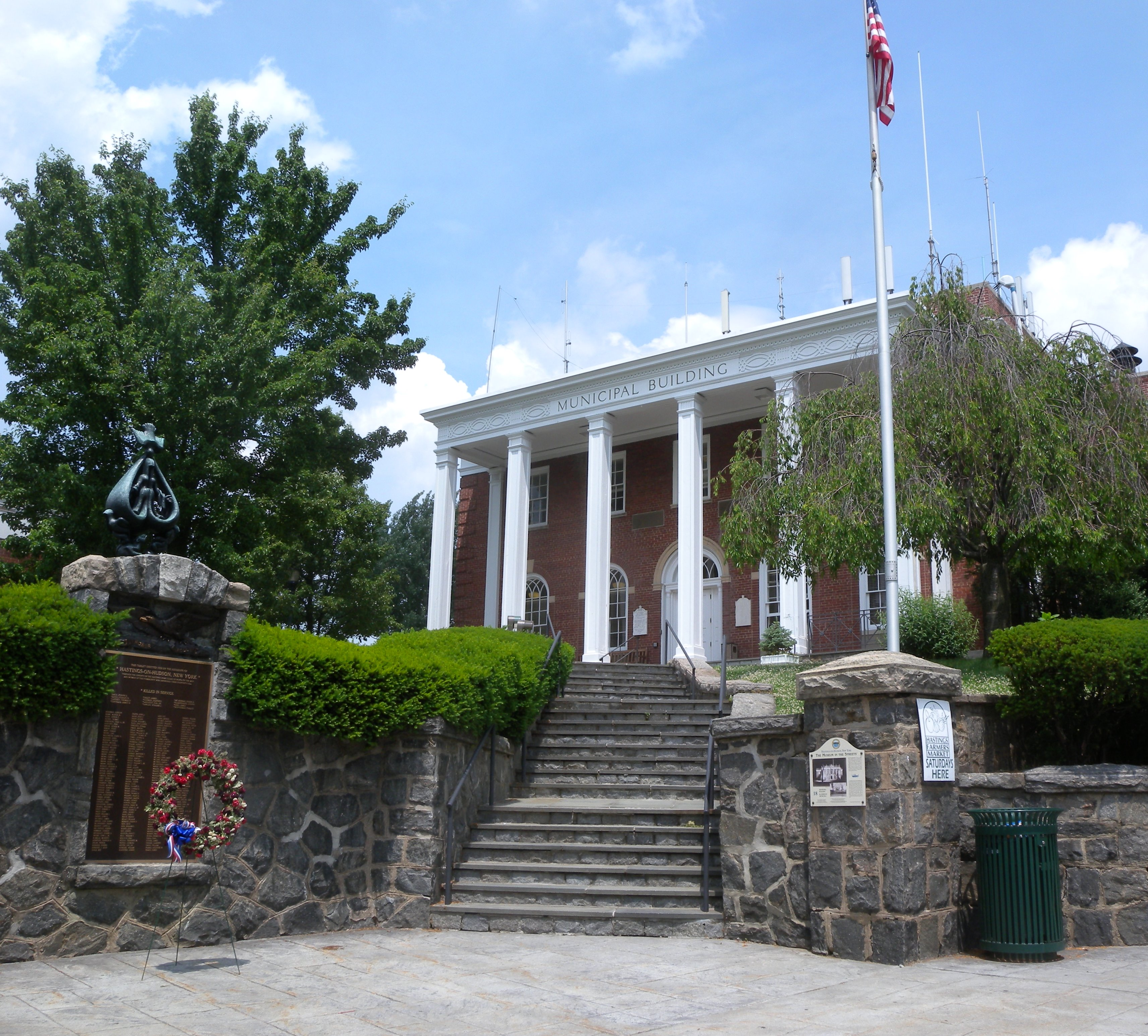 Looking north at Municipal Building on a mostly sunny midday.